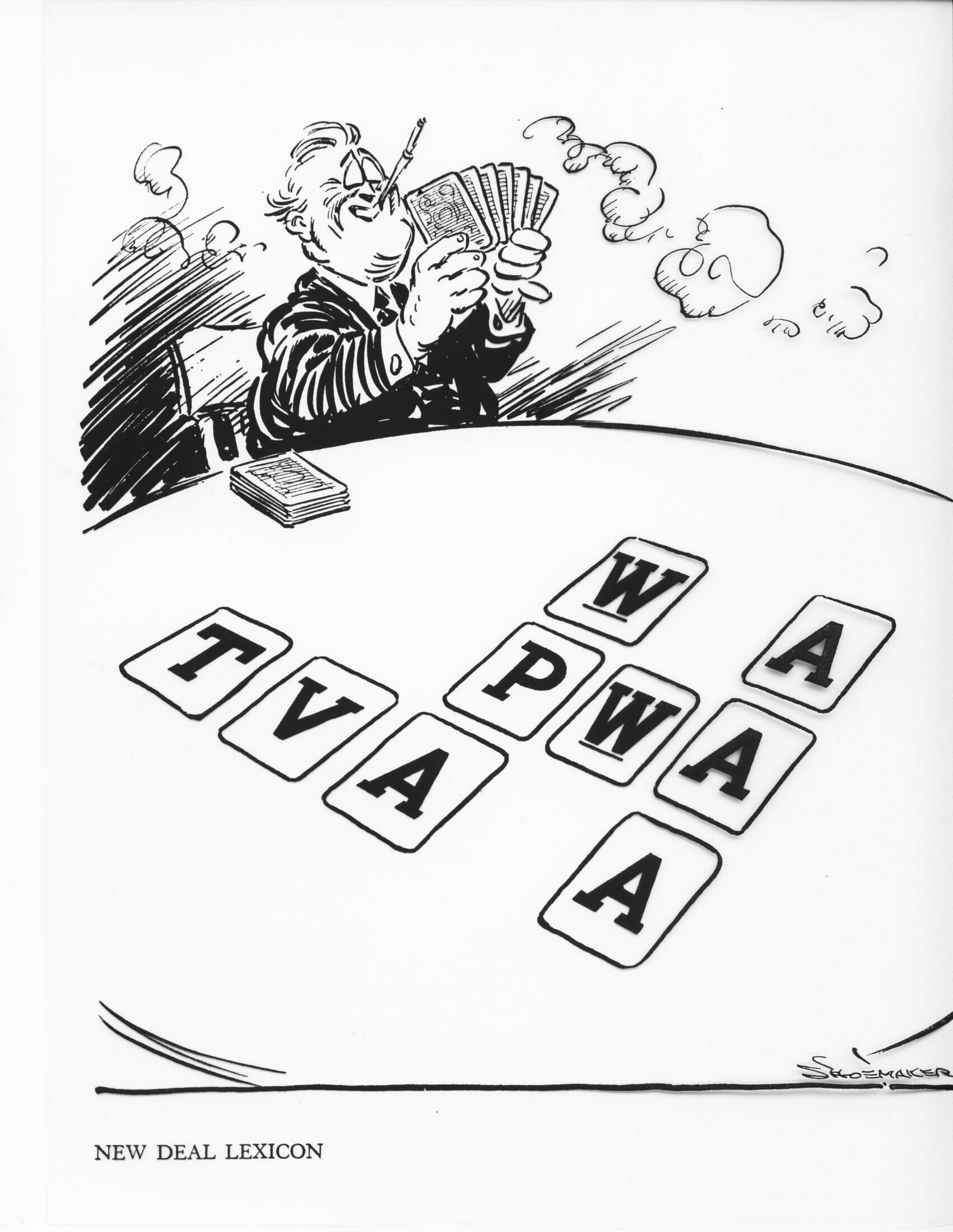 1935 US editorial Cartoon in Chicago Daily News 1935 US editorial Cartoon by Vaughn Shoemaker in Chicago Daily News--parody of New Deal. The copyright expired in 1963 and was not renewed according to U Pennsylvania report.